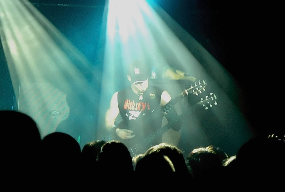 Marc Rizzo of Soulfly live @ Colos-Saal, Aschaffenburg, Germany